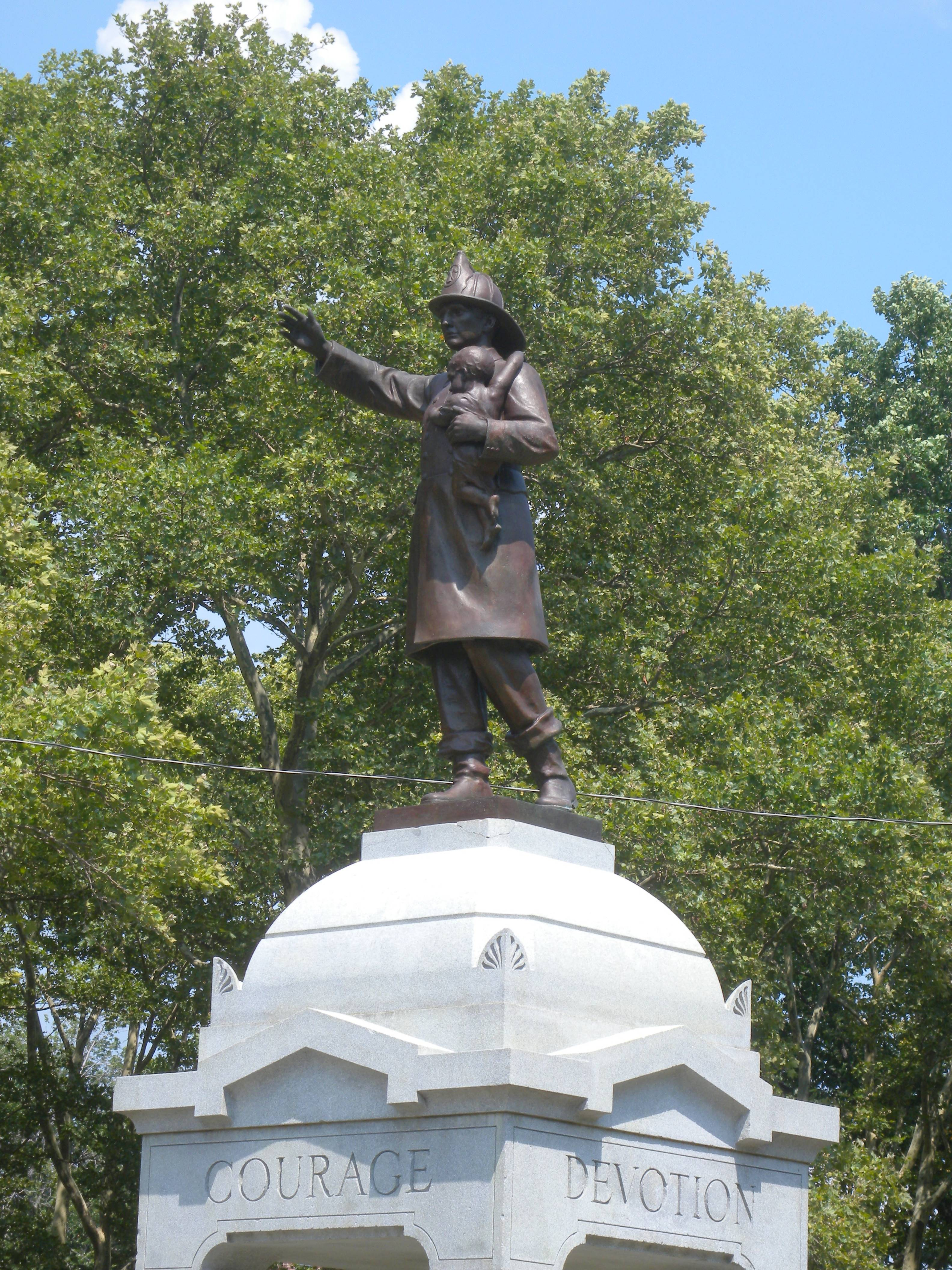 Looking northwest at firemen monument in northeastern Lincoln Park on a sunny midday.